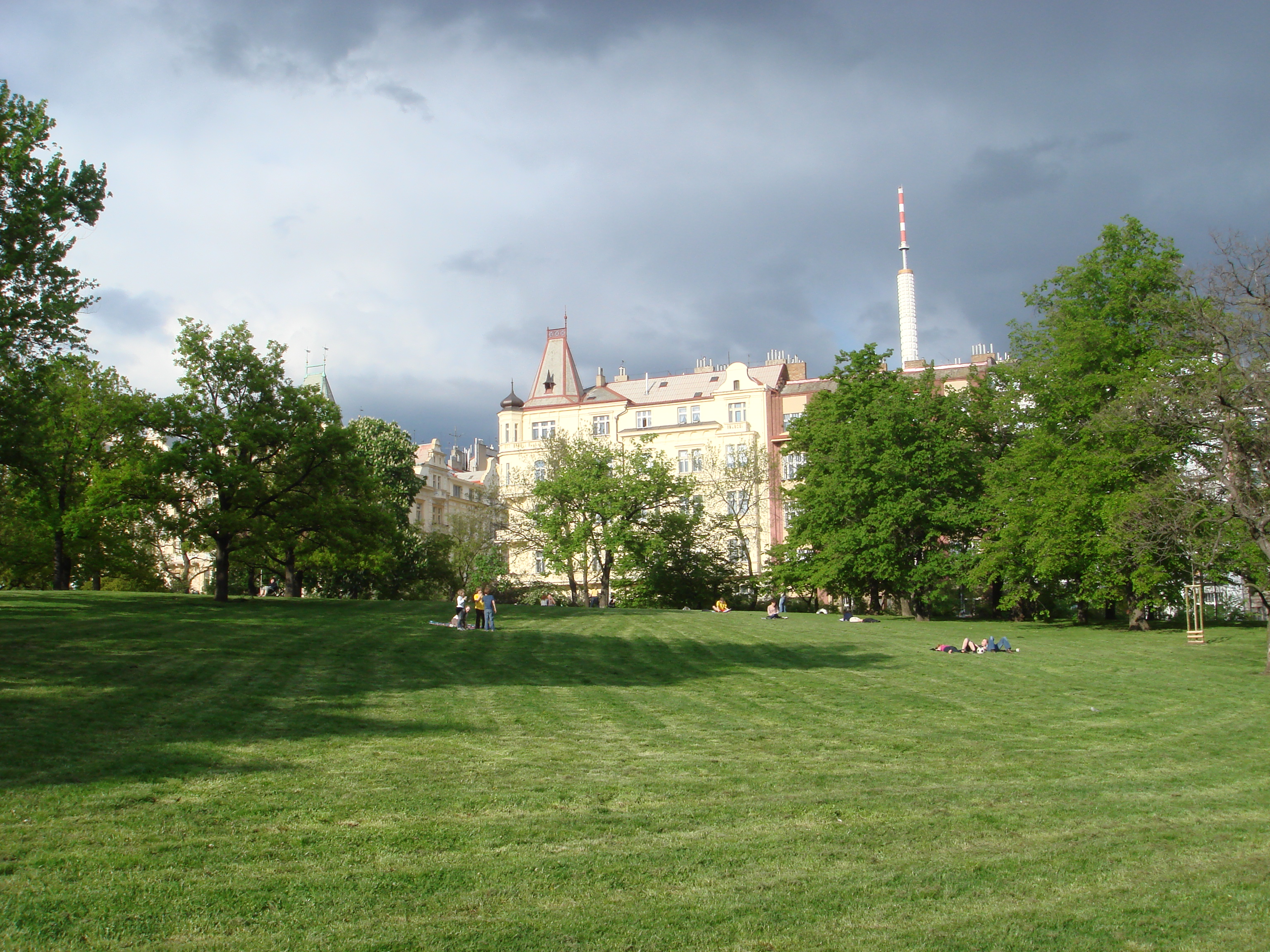 Riegrovy sady in spring (Prague, Czech Republic).